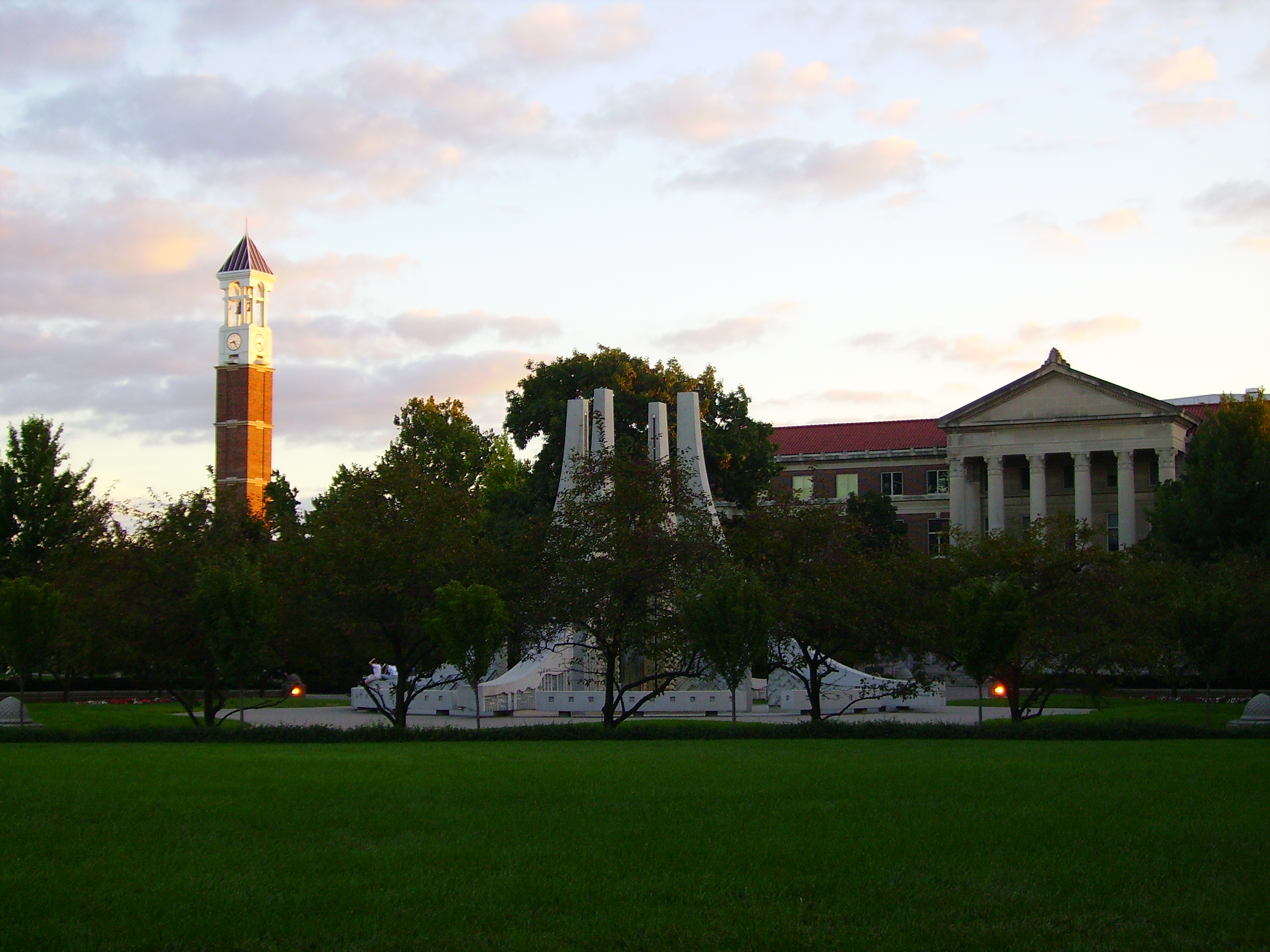 The Engineering Fountain at Purdue University.